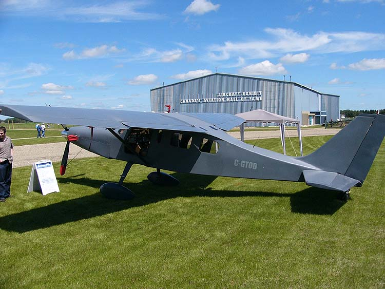 AeroComp 7SL, registration C-GTOD photographed at the COPA Convention Wetaskiwin, Alberta